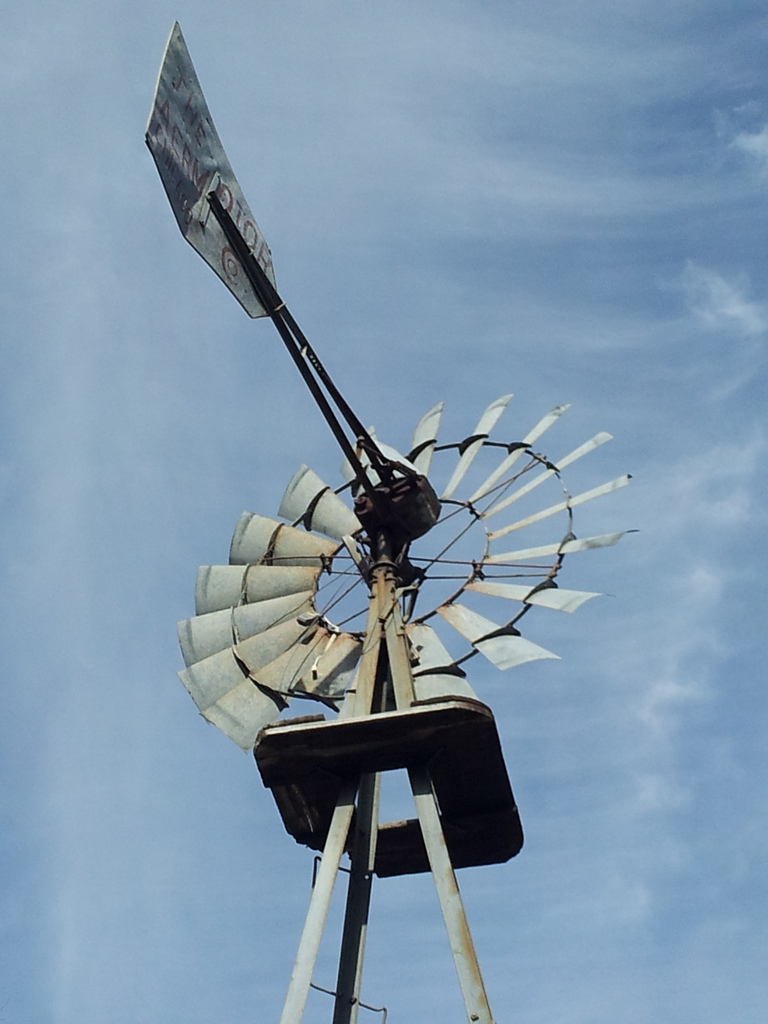 The (defunct) Aermotor wind wheel at Gekeler Farms, an apartment and condominium complex in Boise, Idaho